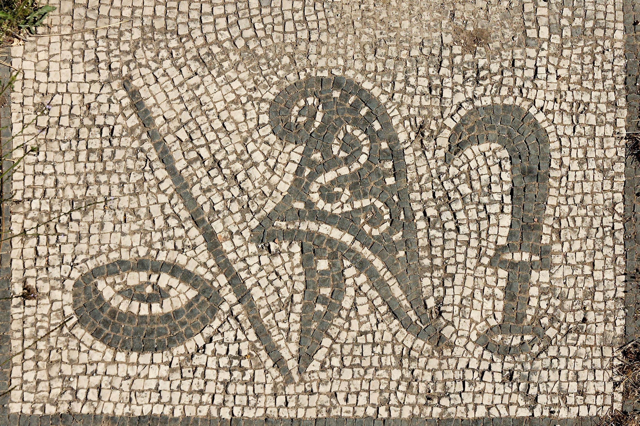 Mosaic panel with a patera, a rhabdos, a Phrygian cap and a pruning knife, 2nd century AD. Mitreo di Felicissimus, Ostia Antica, Latium, Italy.